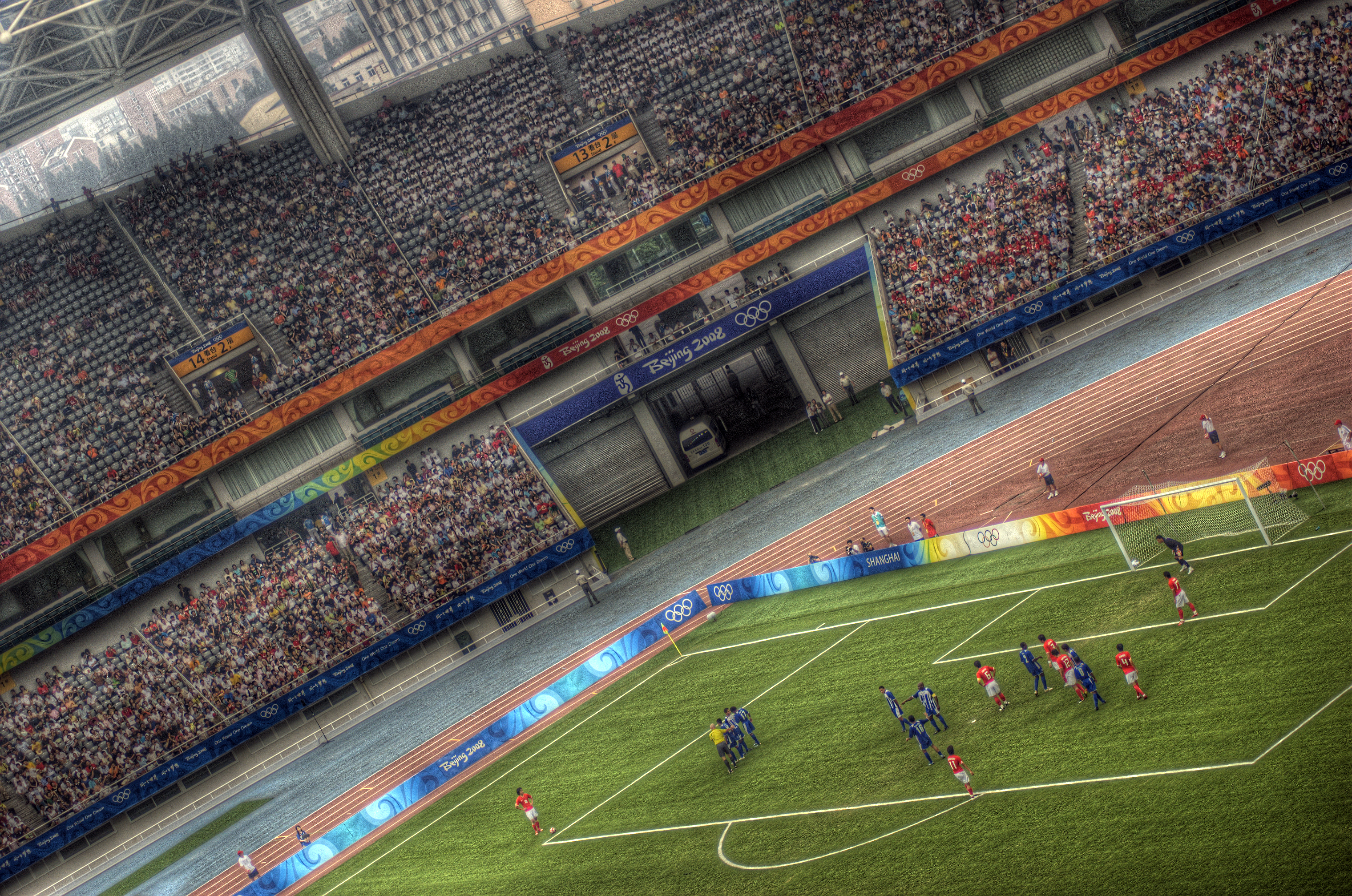 A match between Korea and Honduras during soccer olympic competition